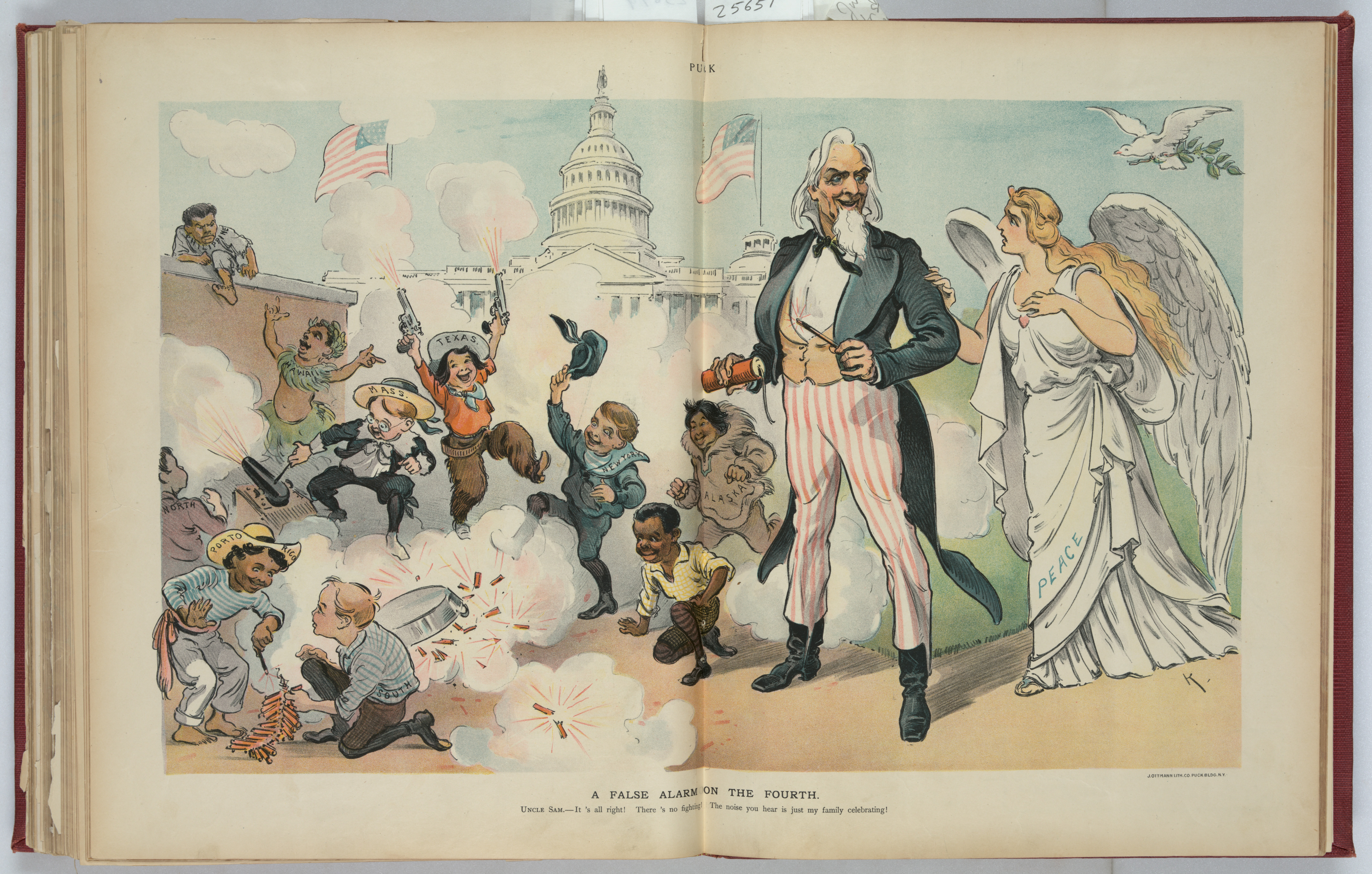 1902 American cartoon about celebrating the Fourth of July Caption: "A False Alarm on the Fourth" Uncle Sam tells Lady Peace: "It's all right. There's no fighting. The noise you hear is just my family celebrating!" Other information From the Library of Congress prints and photographs division Library of Congress description: Illustration shows Uncle Sam, holding a firecracker, trying to reassure a concerned-looking female figure with wings labeled "Peace" that all the noise she hears is for the celebration of the Fourth of July. Celebrating with Uncle Sam are several figures labeled "Alaska, New York, Texas, Mass., Hawaii, Porto Rico, North, South"; one disgruntled figure labeled "Philippine" is climbing over a wall, also an African American is sitting near Uncle Sam. Some are lighting strings of firecrackers, "Texas" is shooting guns, and "Mass." is firing a cannon in the direction of the wall "Philippine" is climbing over. The U.S. Capitol building is in the background and a dove with olive branch hovers over the figure of "Peace".